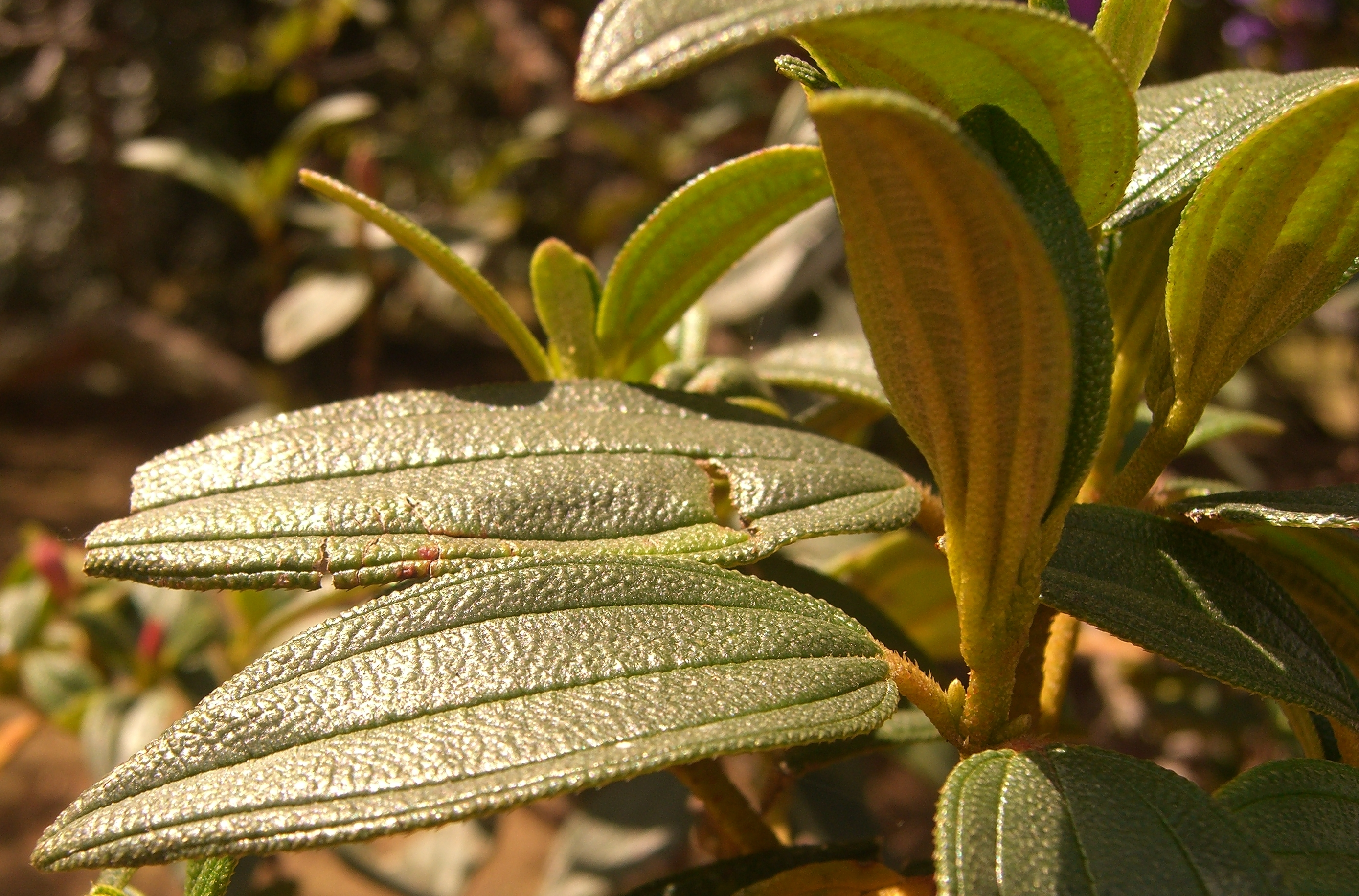 Please report references to .